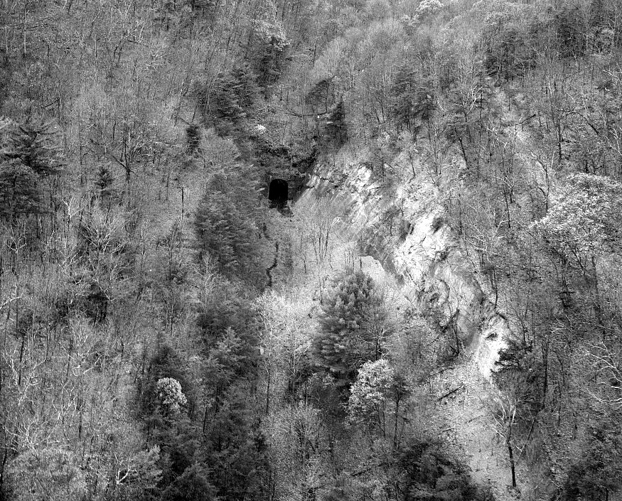 East portal of Tunnel No. 1402, Kessler Tunnel, looking southwest, with Tunnel Hill Road at right. - Western Maryland Railway, Cumberland Extension, Pearre to North Branch, from WM milepost 125 to 160, Pearre, Washington County, MD.